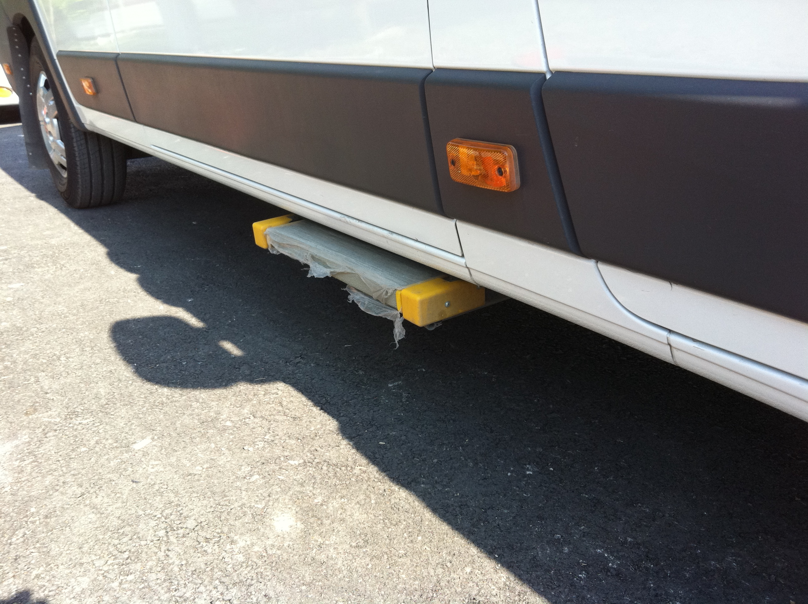 Door step of a Turkish mini bus